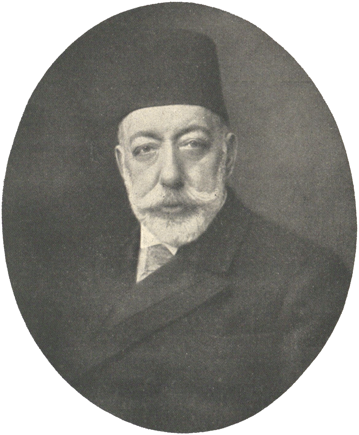 Mehmed V Reşad (1844–1918), Turkish emperor